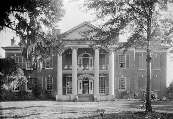 Auburn, Auburn Boulevard, Duncan Memorial Park, Natchez vicinity (Adams County, Mississippi)(cropped)